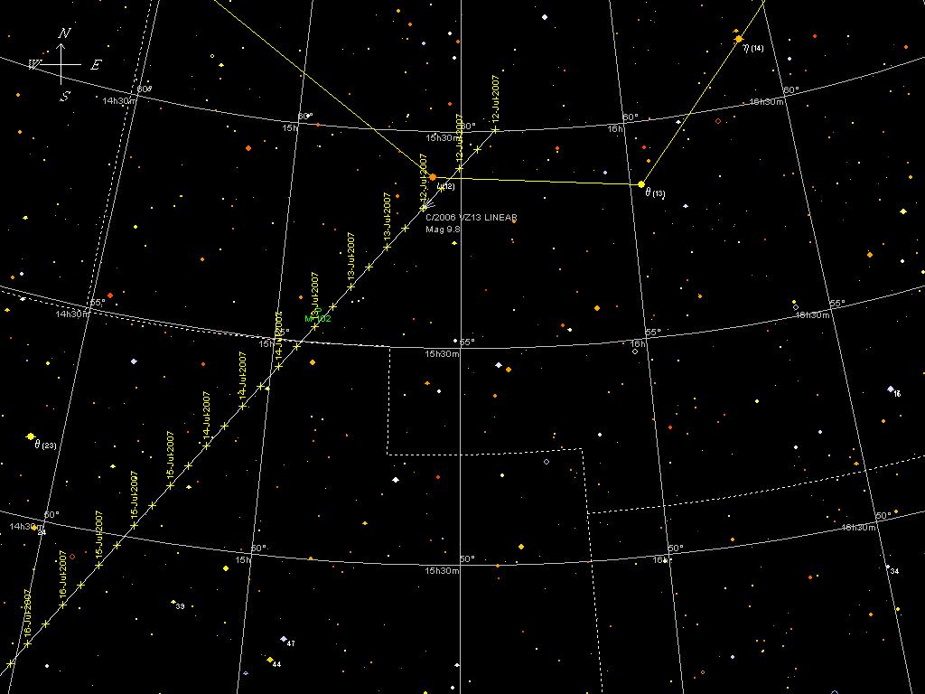 Commercial sky software for amateur astronomers allows users to plot the course of comets in the sky. This example was generated using Sky Map Pro and shows part of the path of Comet 2006 VZ13 LINEAR.